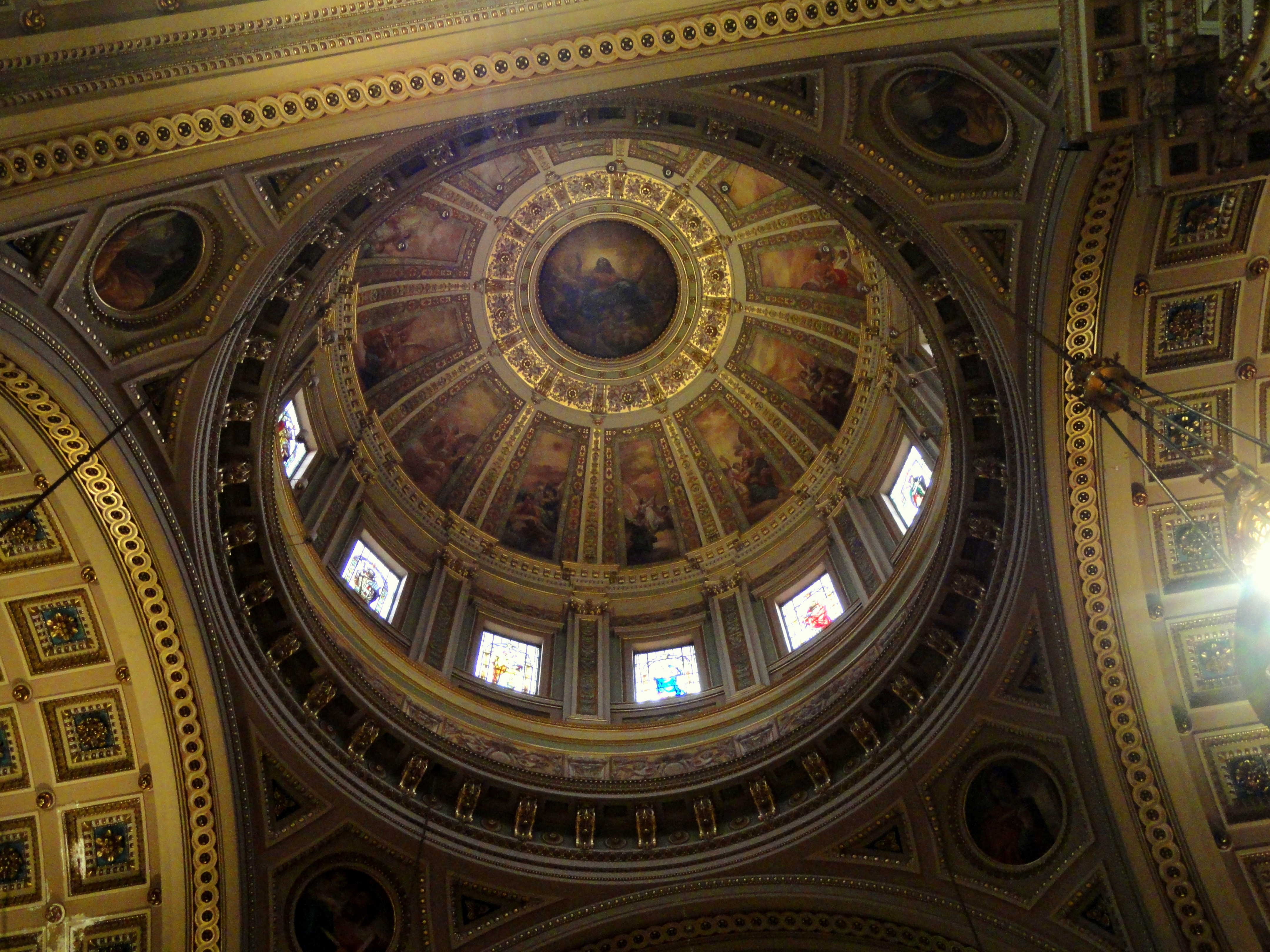 Cathedral Basilica of Saints Peter and Paul, Philadelphia, Pennsylvania, USA. Completed in 1864; architects John Notman and Napoleon Eugene Henry Charles Le Brun.